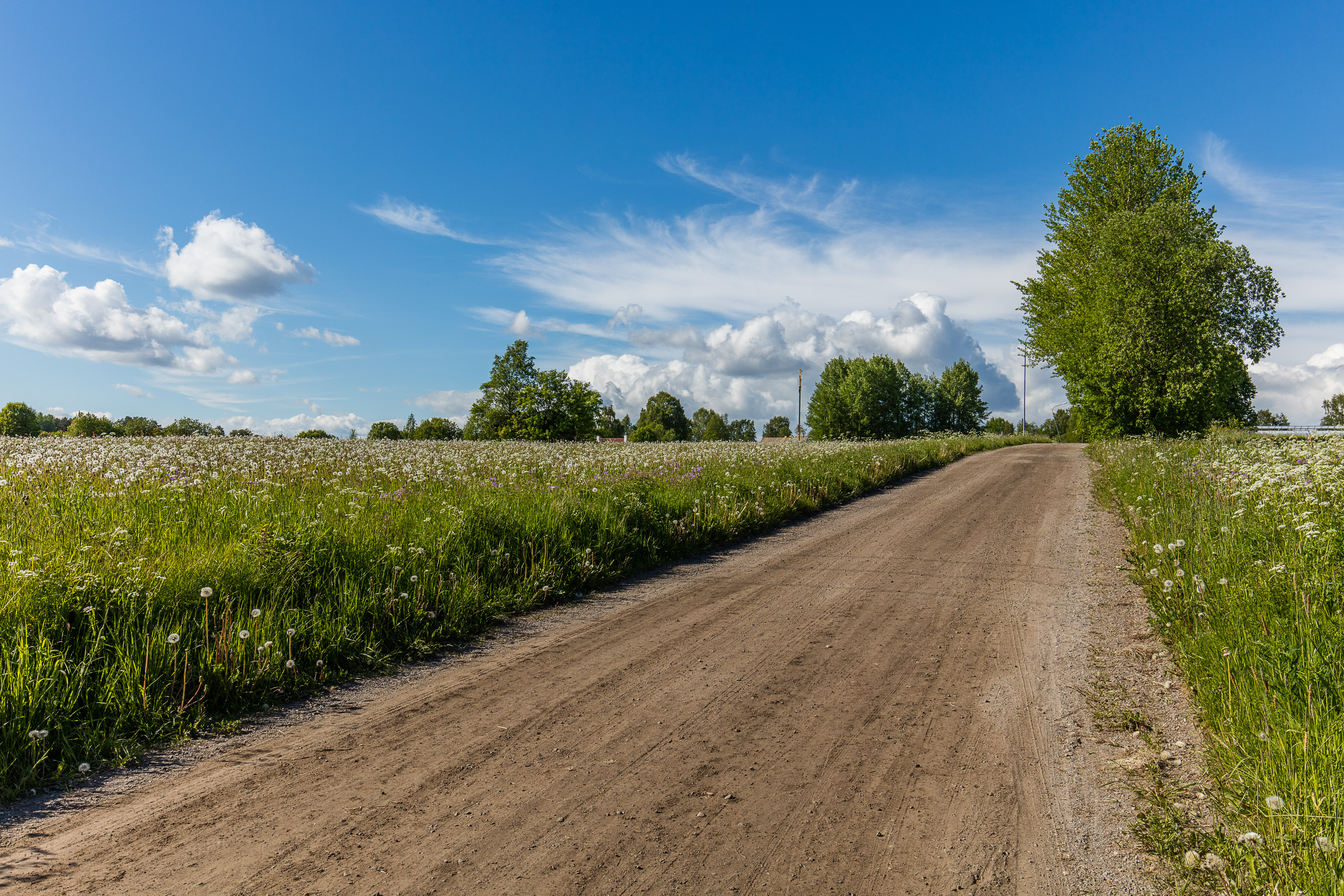 Häradsvägen goes between the Backen Church and the 18th century government house.